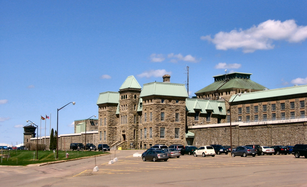 Dorchester Penitentiary in New Brunswick Canada. Opened in 1880 as a maximum security prison, it now functions as a medium security facility. The central block is the original building; the wings are newer.